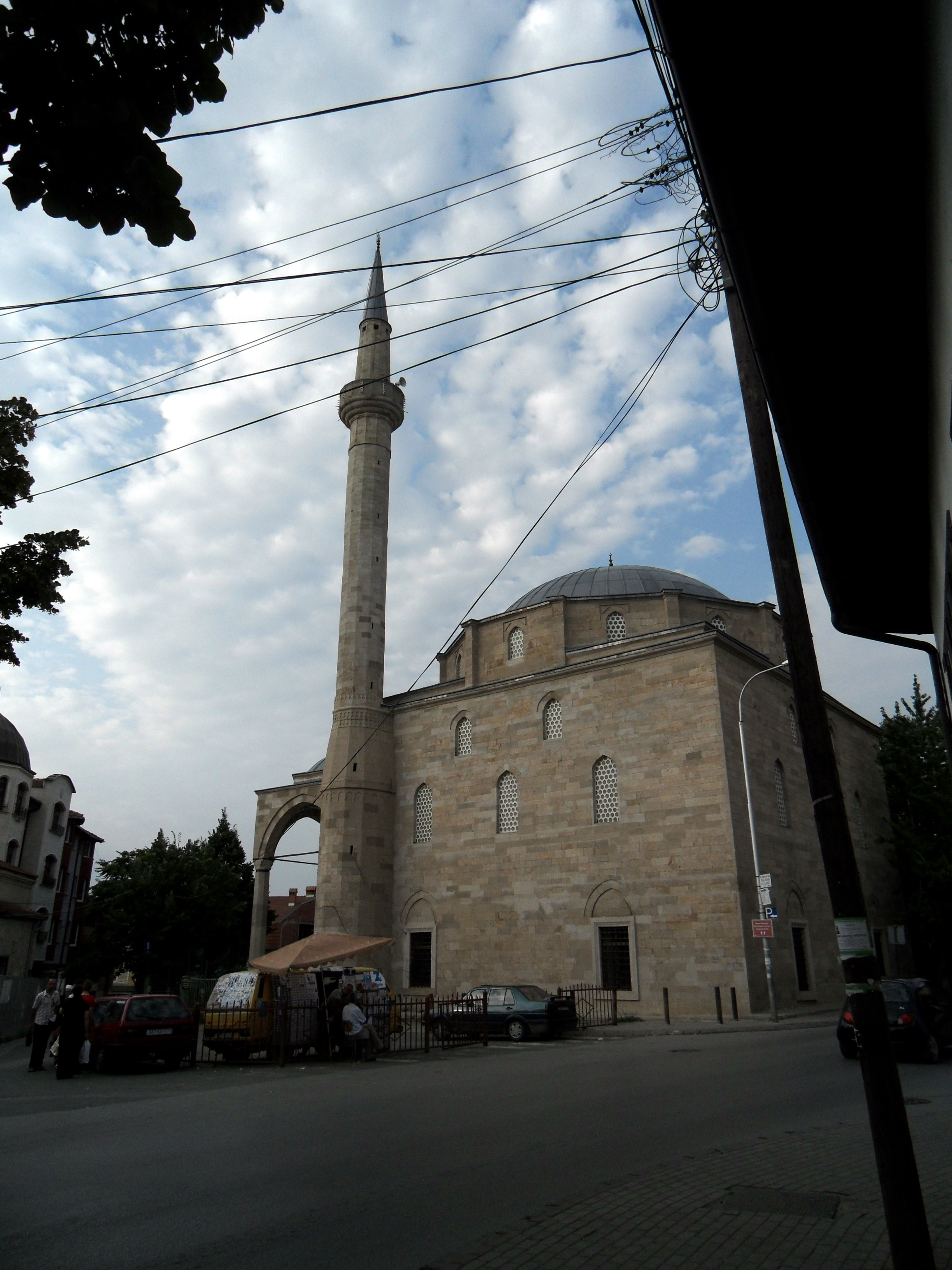 Mosque in Prishtina